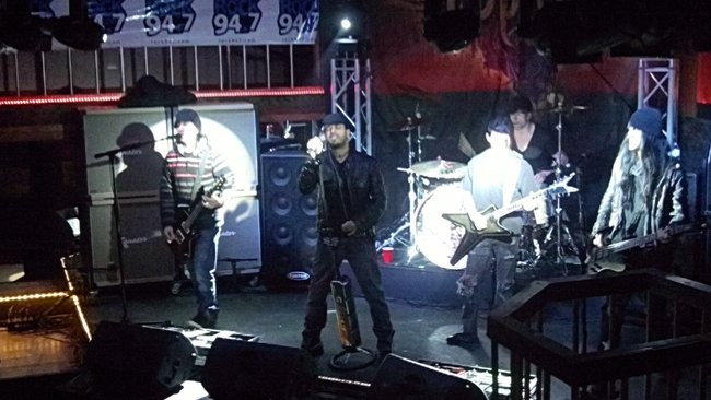 Pop Evil during sound-check in Wausau, WI